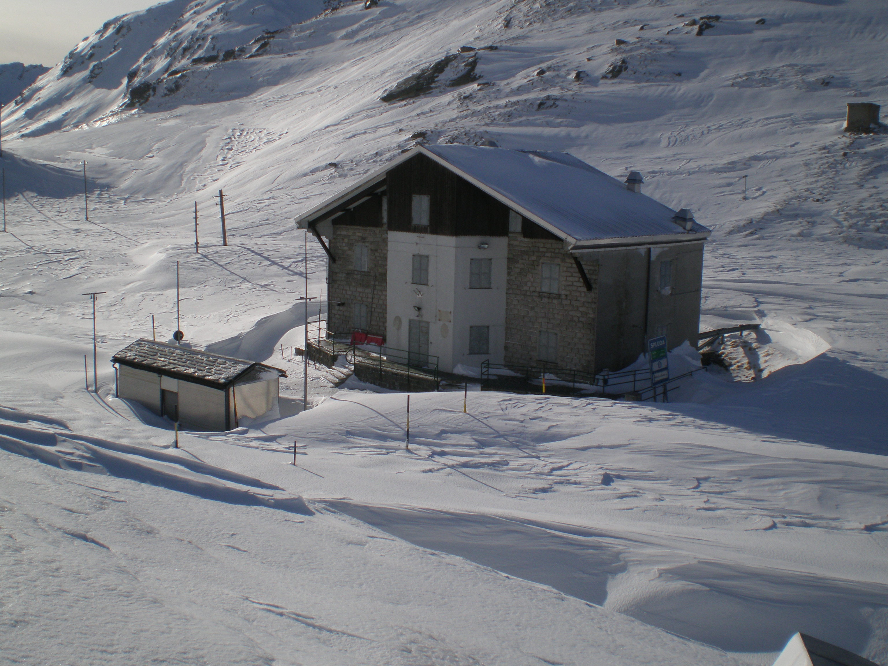 Splügen Pass pass in winter.